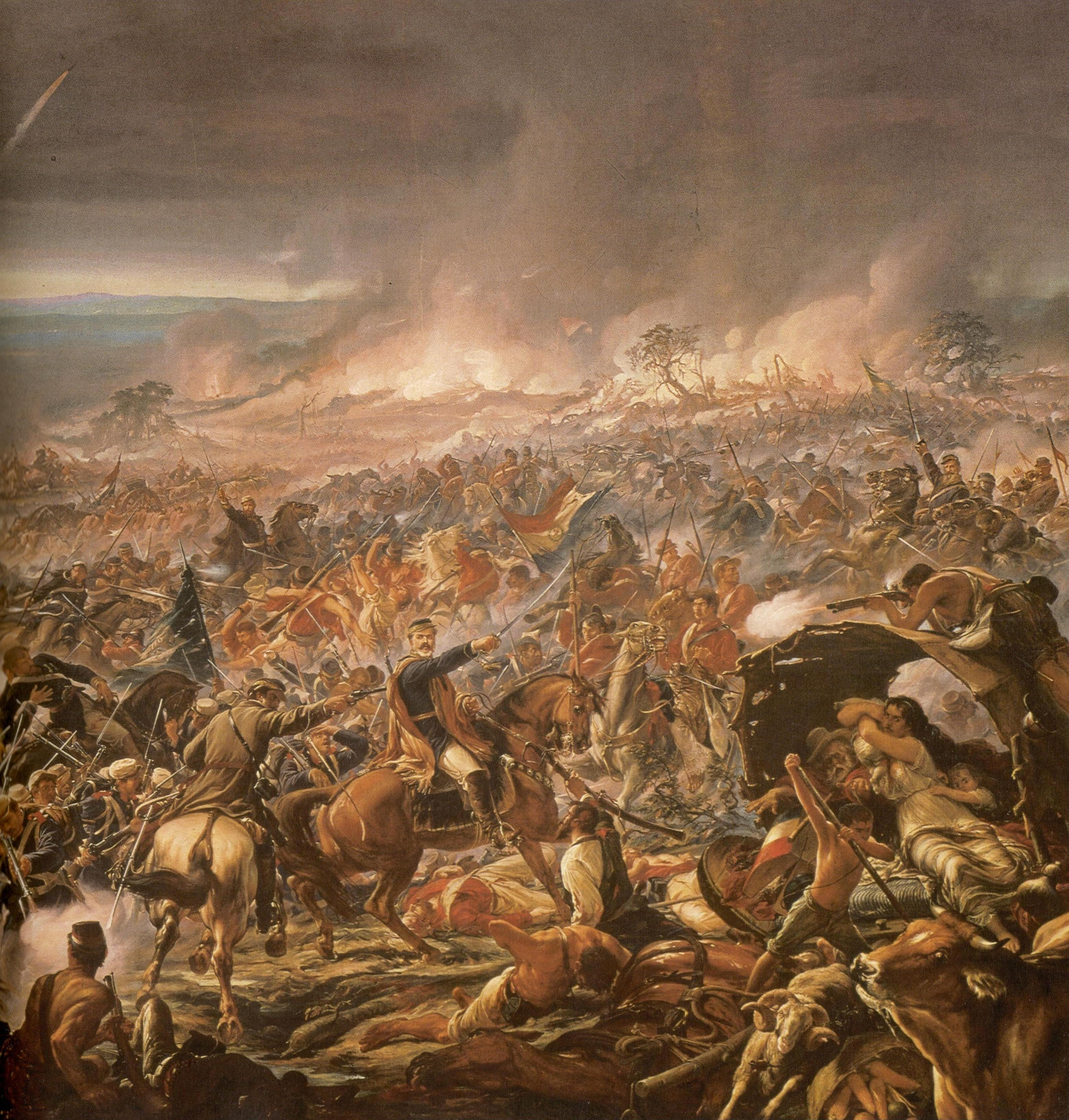 Batalha do Avaí, Museu Nacional de Belas Artes, Brasil